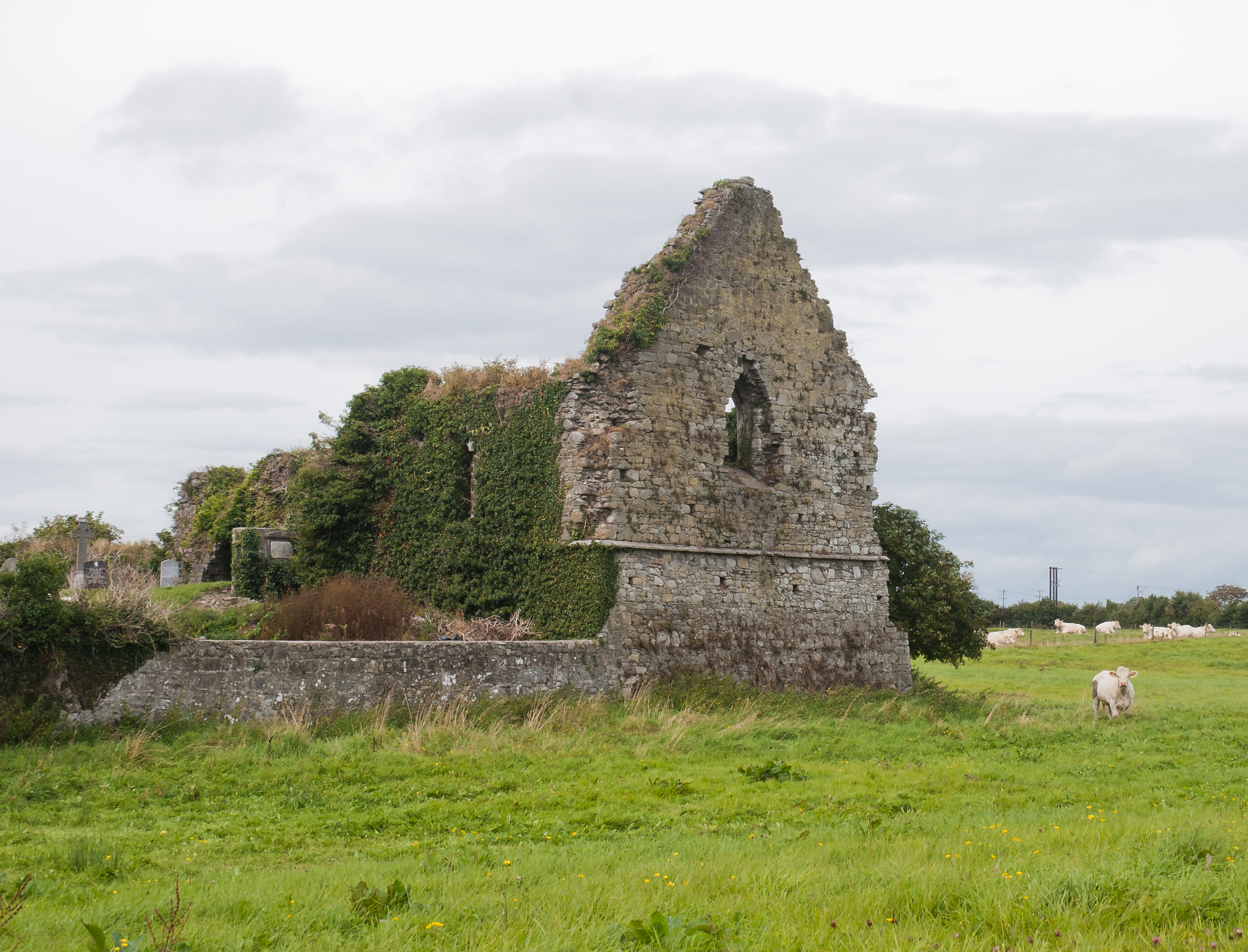 East gable of the choir.